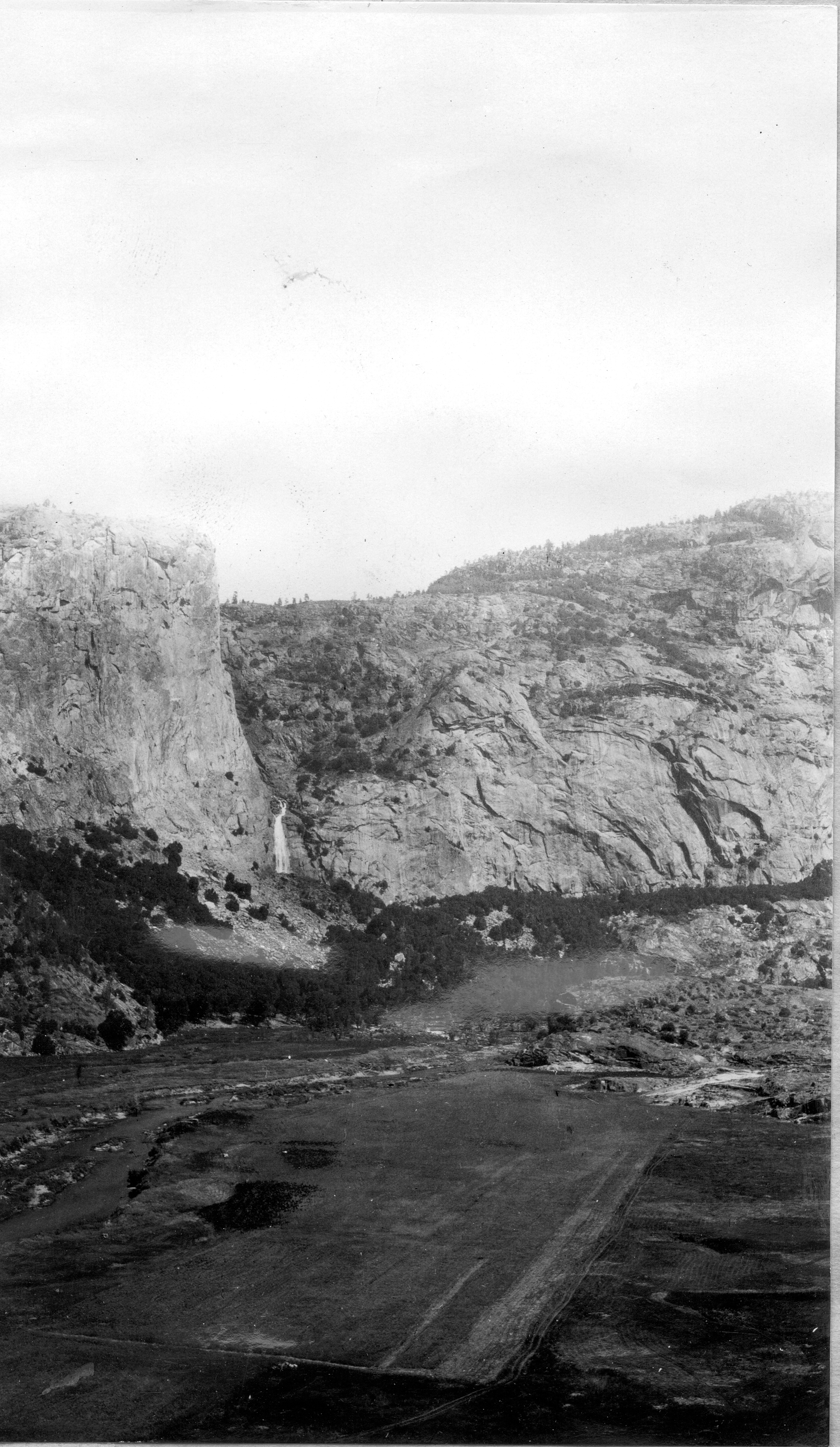 Hetch Hetchy Valley c. 1914 — as it appeared before it was submerged under a reservoir in 1923. Located in Yosemite National Park, California. Although only half as long and wide as Yosemite Valley, Hetch Hetchy bears a strong resemblance to it in general form. It also has similar granite cliff formations, such as one resembling El Capitan on the left, and Kolana Rock on the right. Credits Plate 5-B, U.S. Geological Survey Professional paper 160.